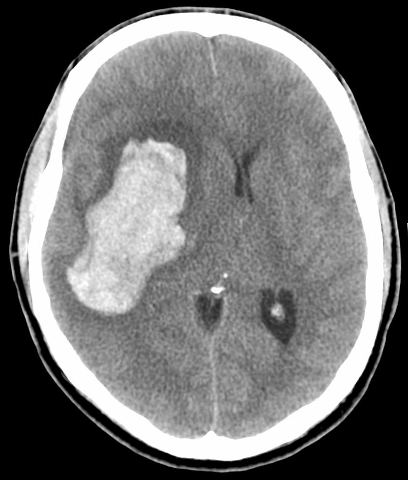 An intra parenchymal bleed with surrounding edema. This is an edited version of the source image used in the "Anatomist" app and shared here under the terms of the source image's Share Alike Creative Commons license.